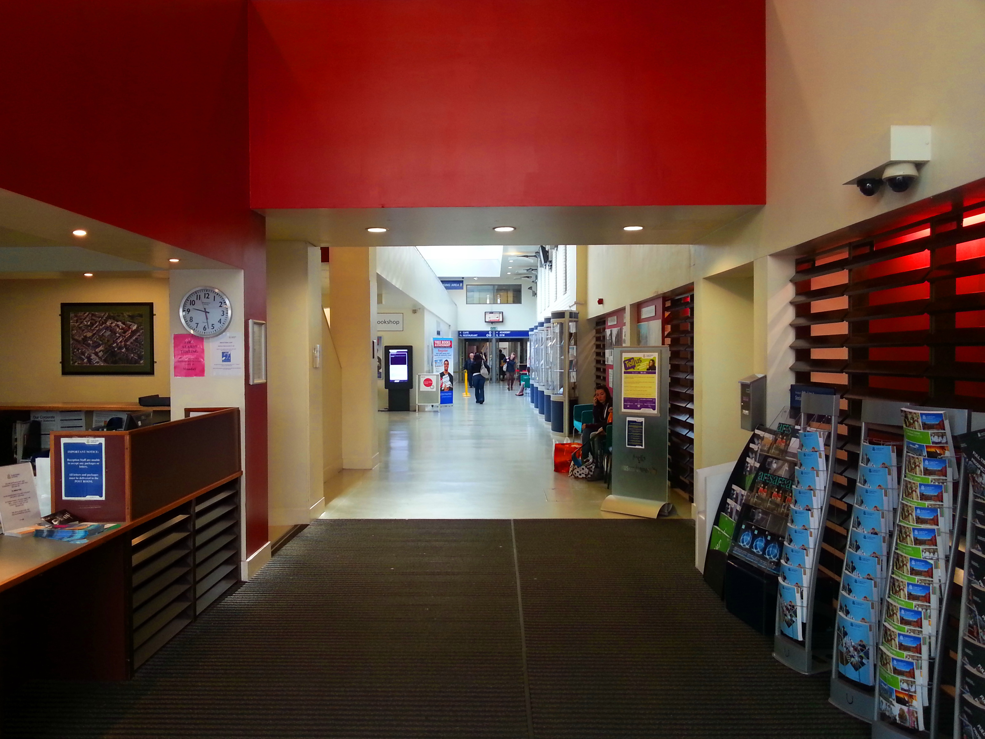 Hallway through Helmore toward Mumford Library. The university reception as well as the bookshop and the utility shop are situated by the hallway.